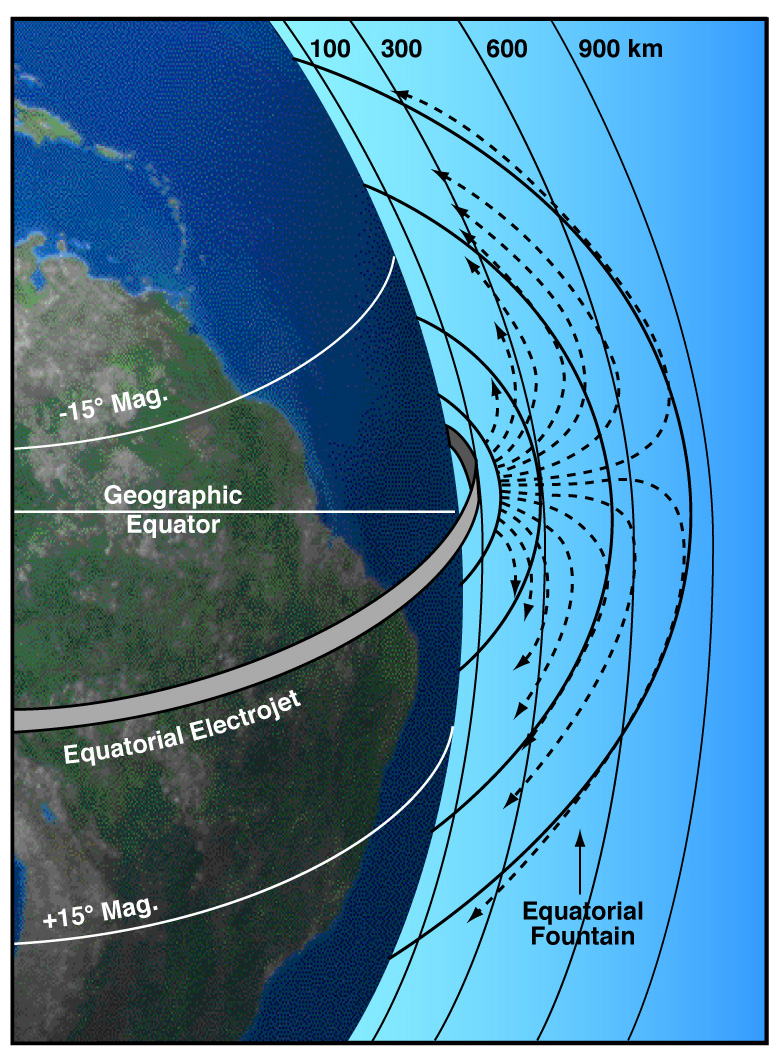 Fountain effect pushes electrons (ExB Drift)